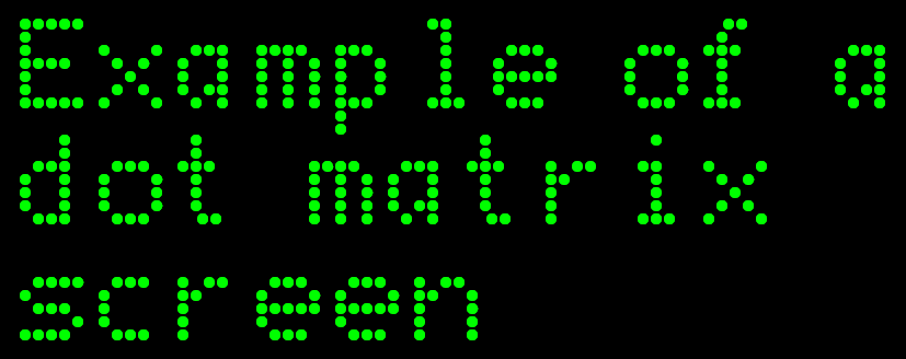 made by myself Lenny 15:32, 21 June 2006 (UTC)